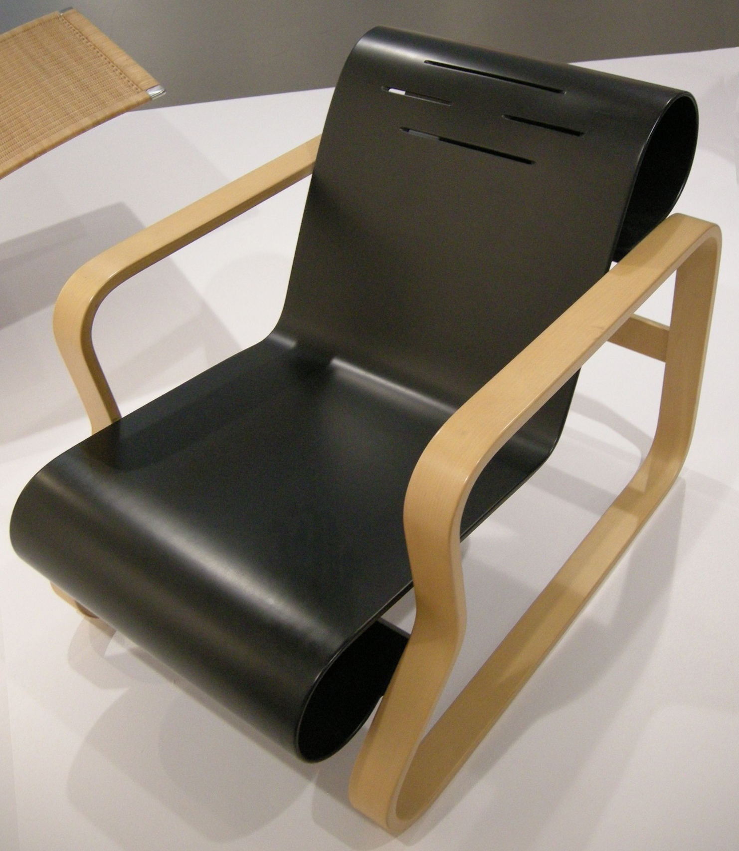 Armchair 41 by Alvar Aalto Alvar Aalto (1898–1976) Alternative names Aruvā Āruto; Hugo Alvar Henrik AaltoDescriptionFinnish architect, designer and urban plannerDate of birth/death 3 February 1898 11 May 1976 Location of birth/death Kuortane HelsinkiAuthority control : Q82840 VIAF: 71410602 ISNI: 0000 0001 0913 6025 ULAN: 500002617 LCCN: n79018877 NLA: 35776752 WorldCat creator QS:P170,Q82840